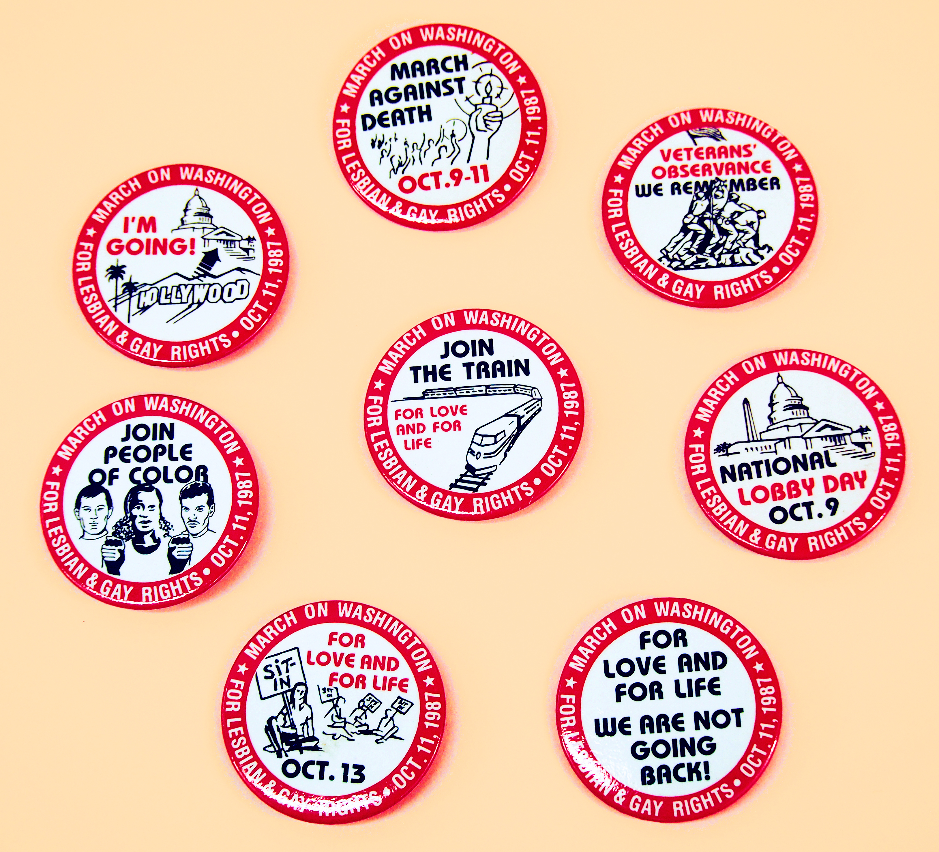 Buttons from The Second National March on Washington for Lesbian and Gay Rights, October 11, 1987. Collections of the Smithsonian’s National Museum of American History, Division of Medicine & Science.